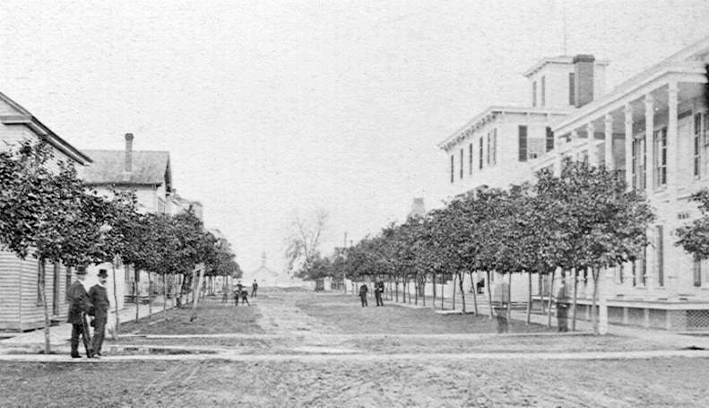 View of Front Street (now Second Street), Palatka, Florida. The building on the right is The Putnam House, a hotel built following the Civil War by Colonel Hubbard L. Hart.